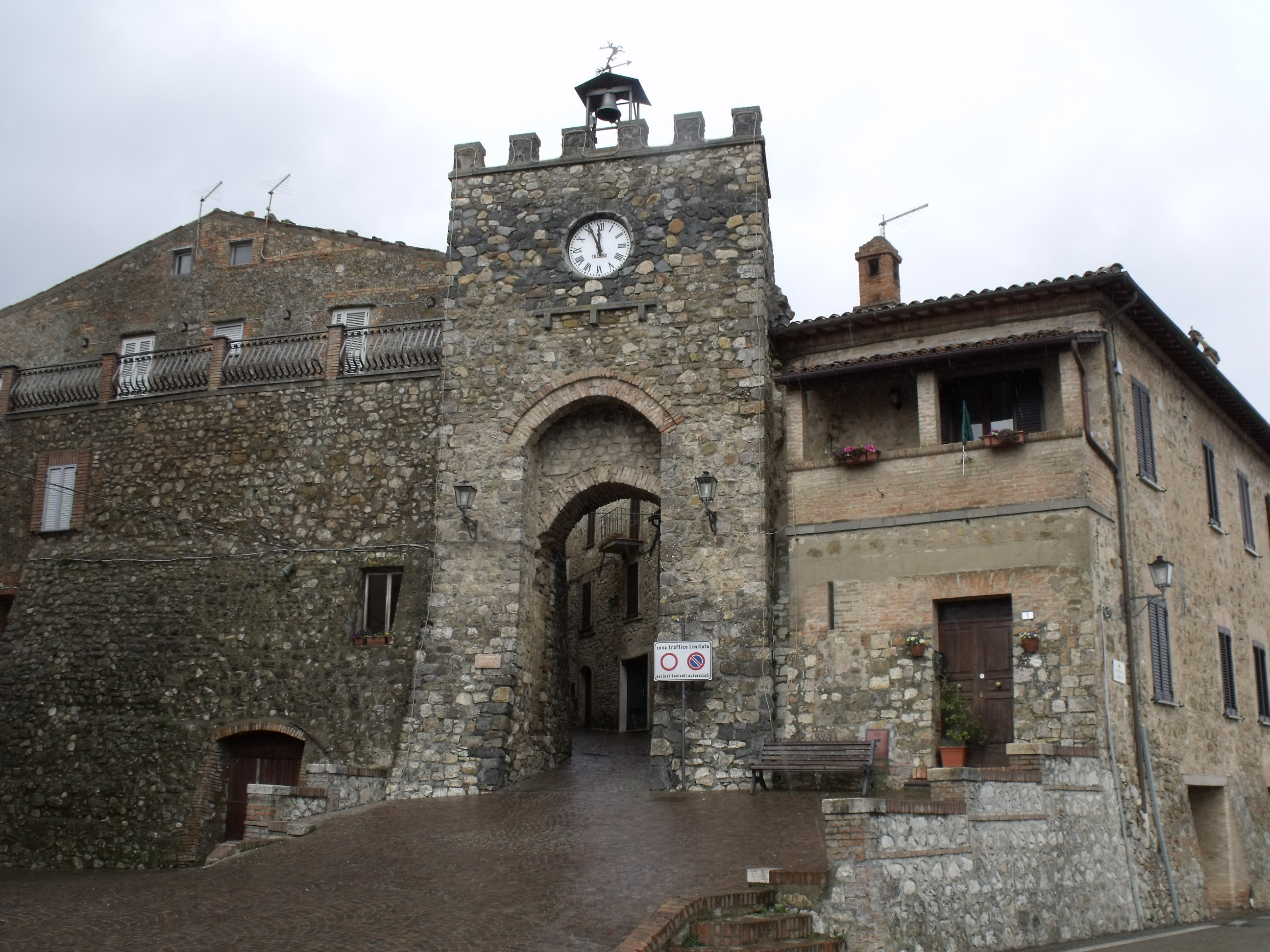 Citygate Porta del Sole in Allerona, Umbria, Italy